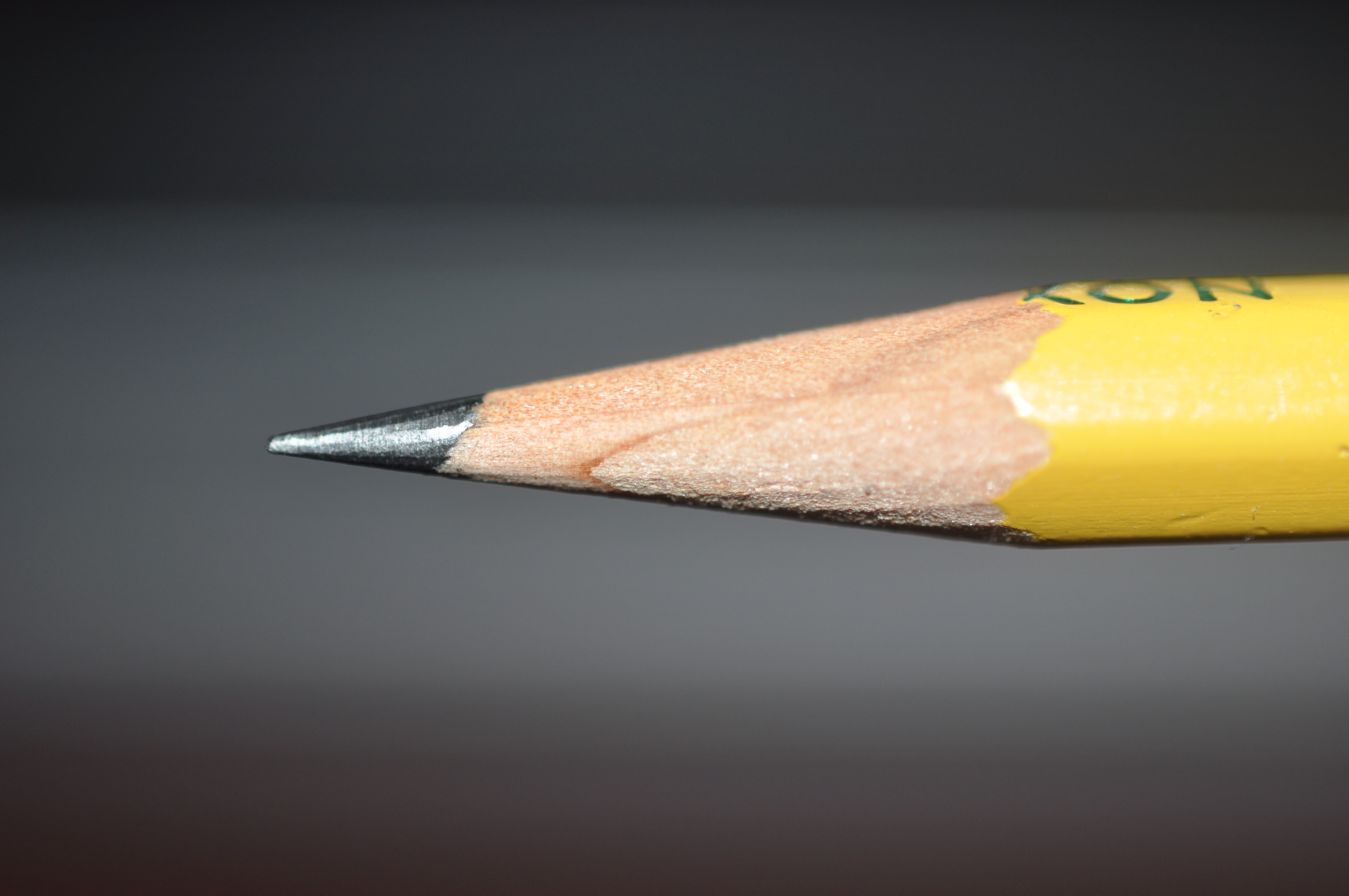 Closeup of a pencil tip.